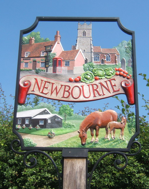 Newbourne village sign. A particularly bright and cheerful example.